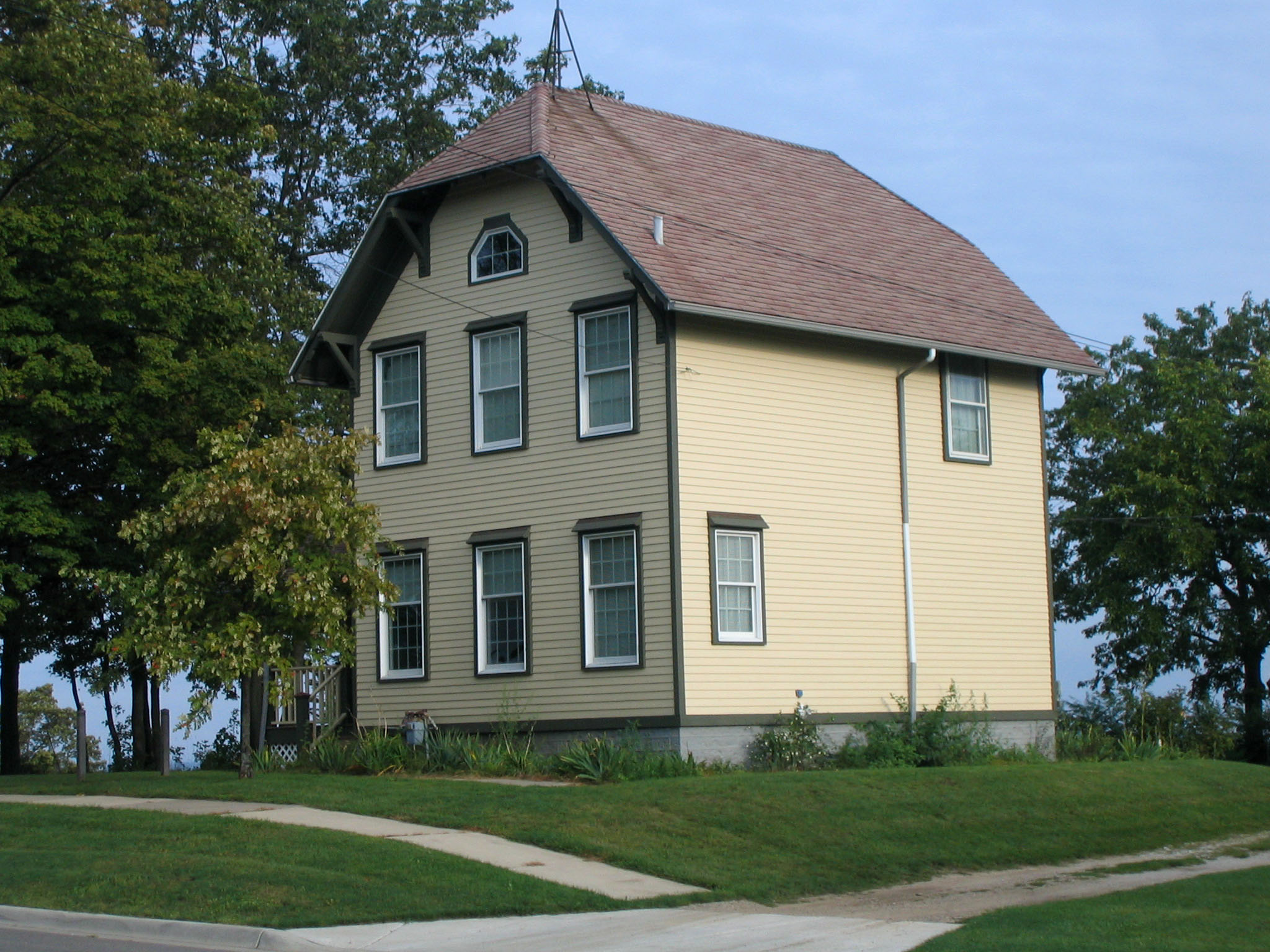 Lightkeepers house at South Haven Light, Michigan, USA